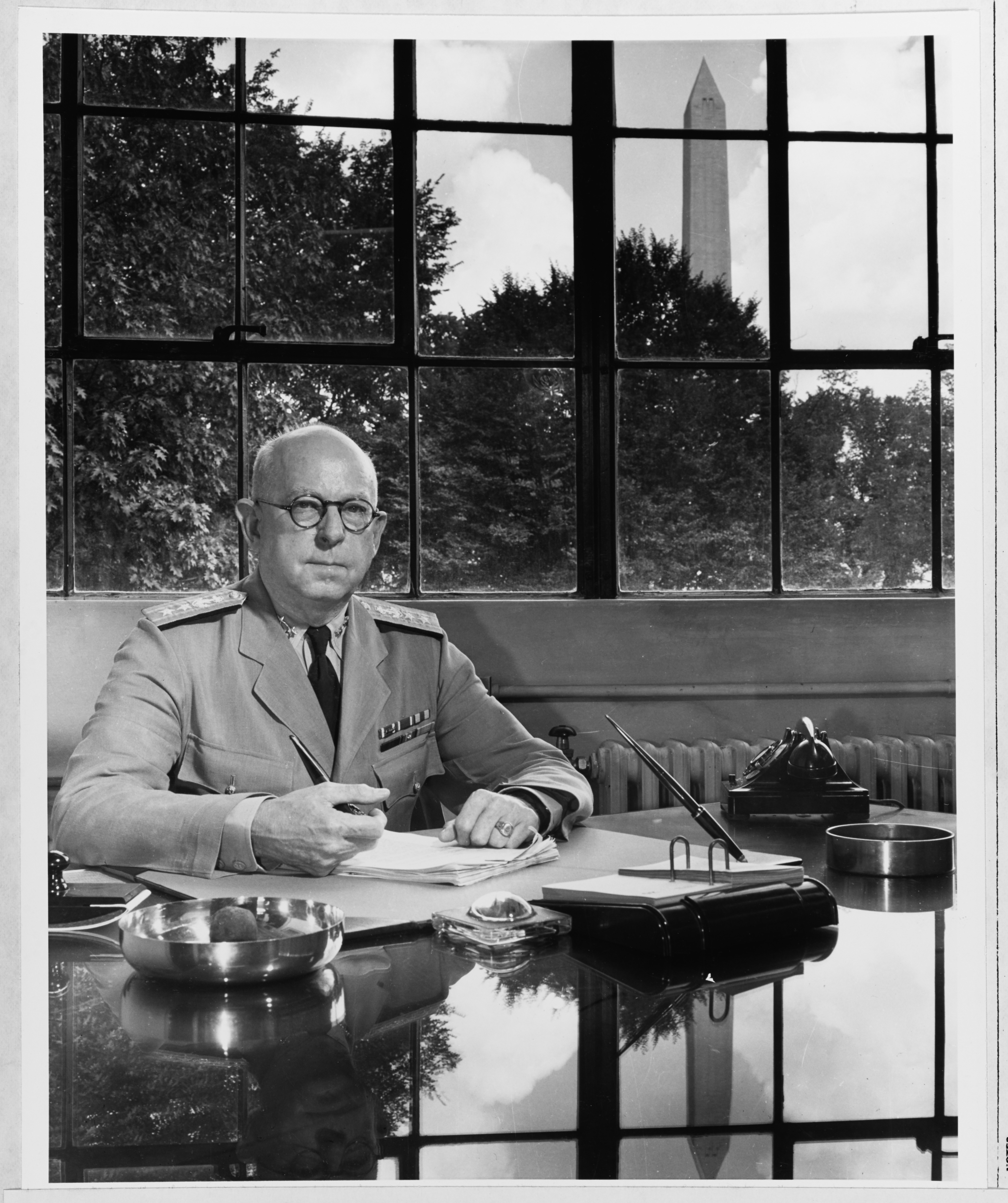 At his desk at the Navy Department, Washington, D.C., during the World War II years. The Washington Monument is in the right background, indicating that this office was on the eastern side of Zero Wing, in the Main Navy Building. Official U.S. Navy Photograph, now in the collections of the National Archives.